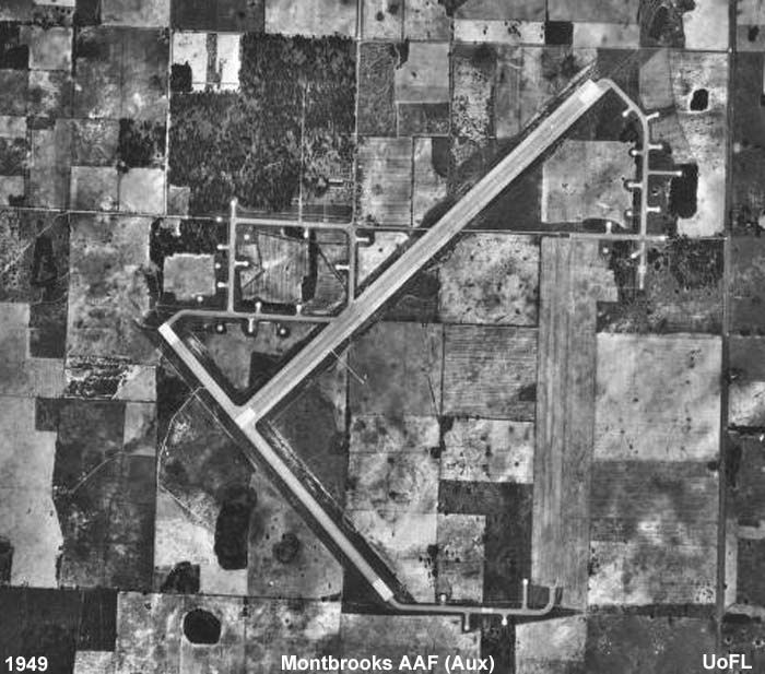 Montbrooks AAF Florida, 1949